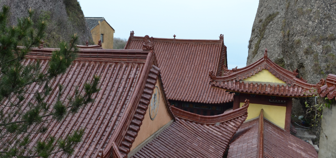 依岩而筑的清福禅寺